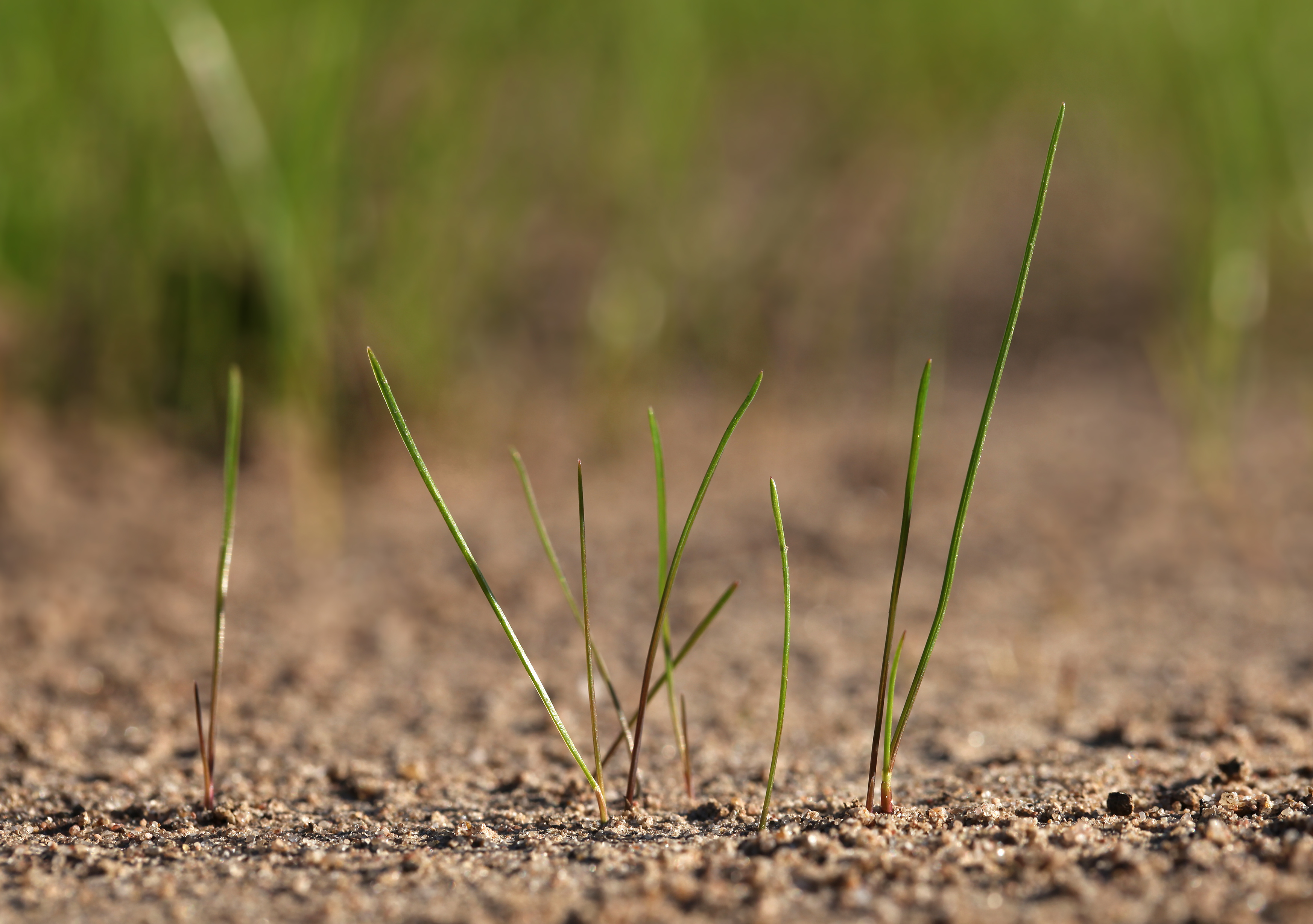 young grass, probable: Festuca rubra (sensu latu)